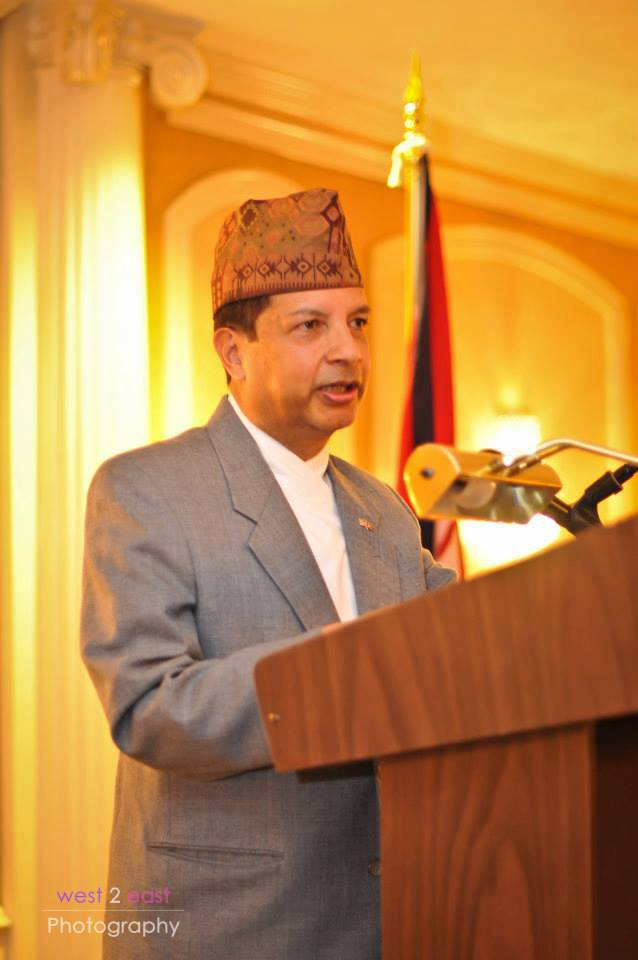 Shankar Sharma